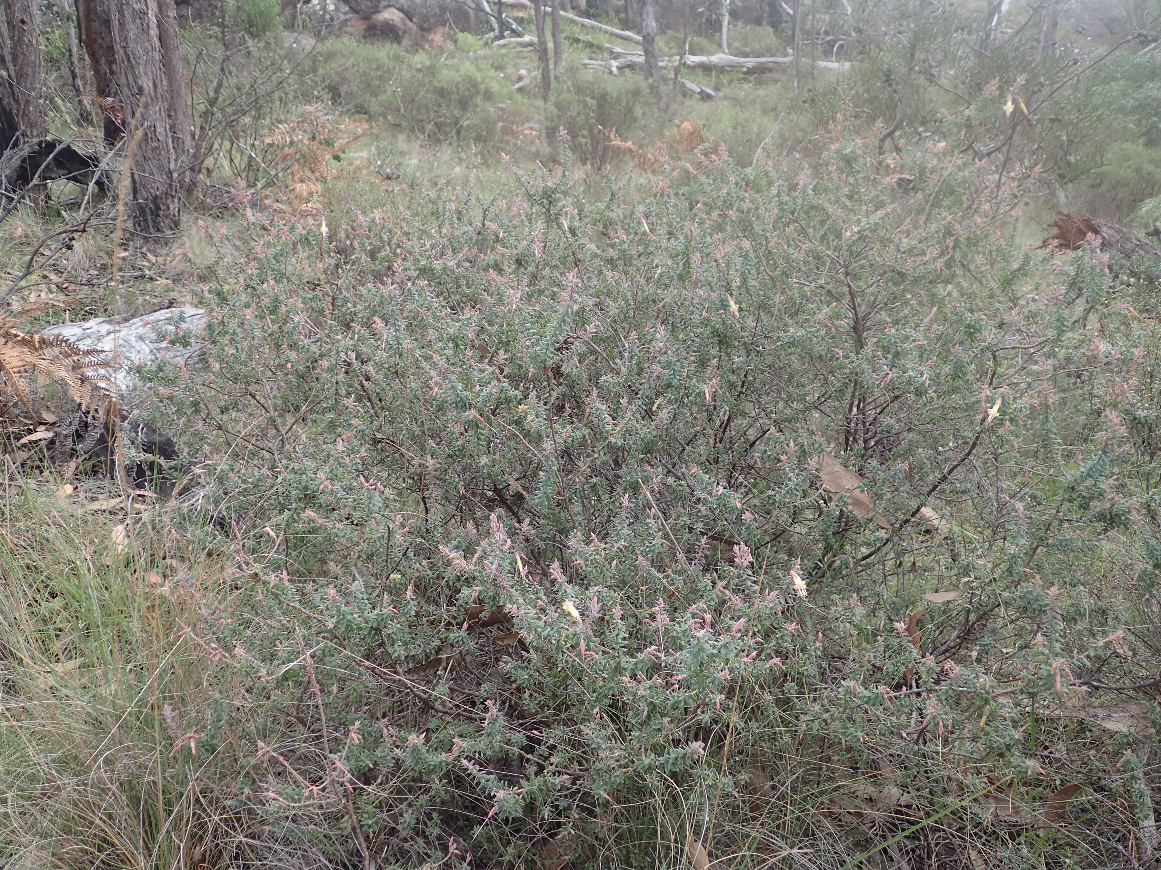 Styphelia perileuca growing in Cathedral Rocks National Park